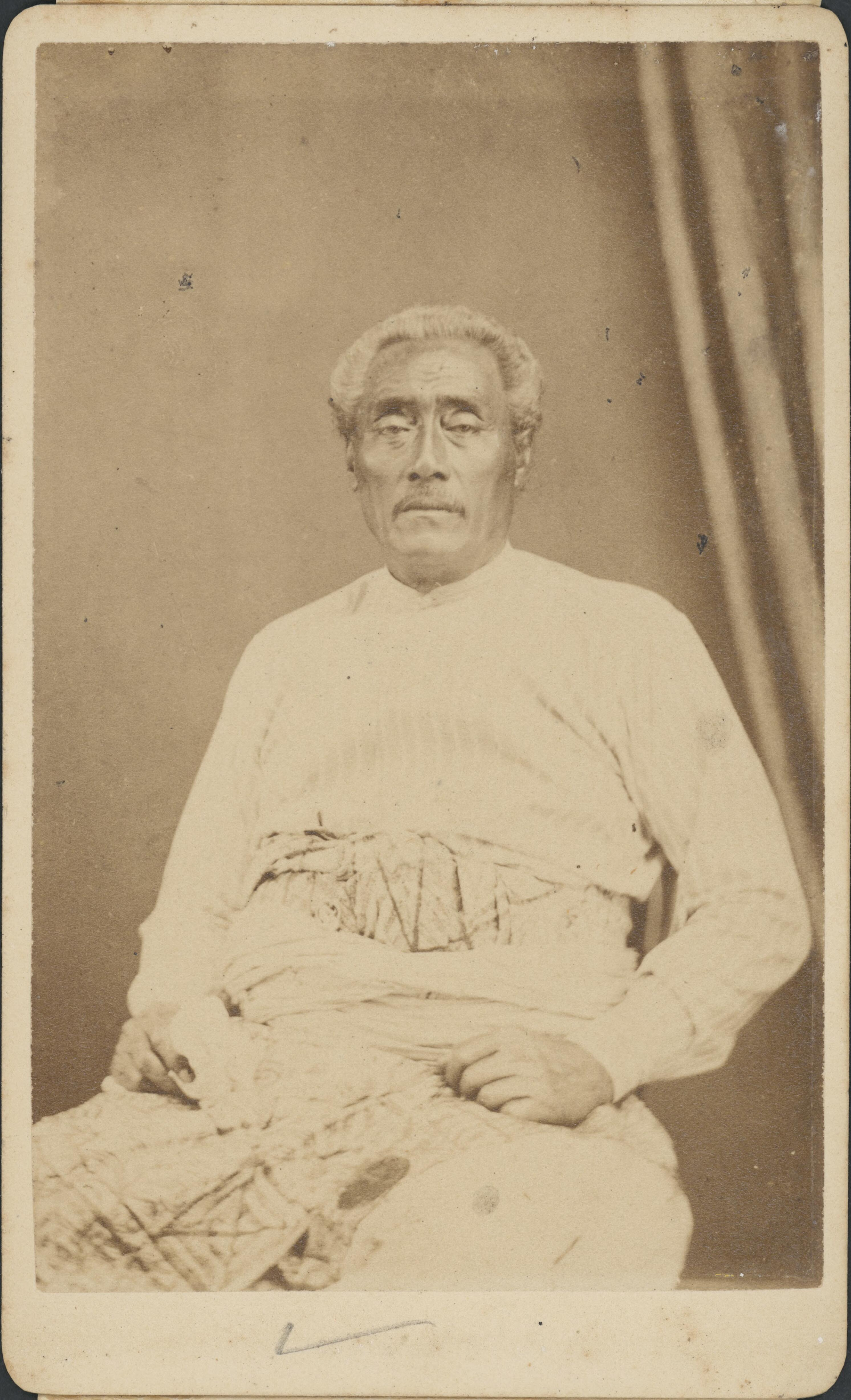 Enele Ma'afu, Tui Lau, leader of the Tongans in Fiji, died 1881. Carte de visite; 8.6 × 5.5 cm., on mount 61 × 116.4 cm.